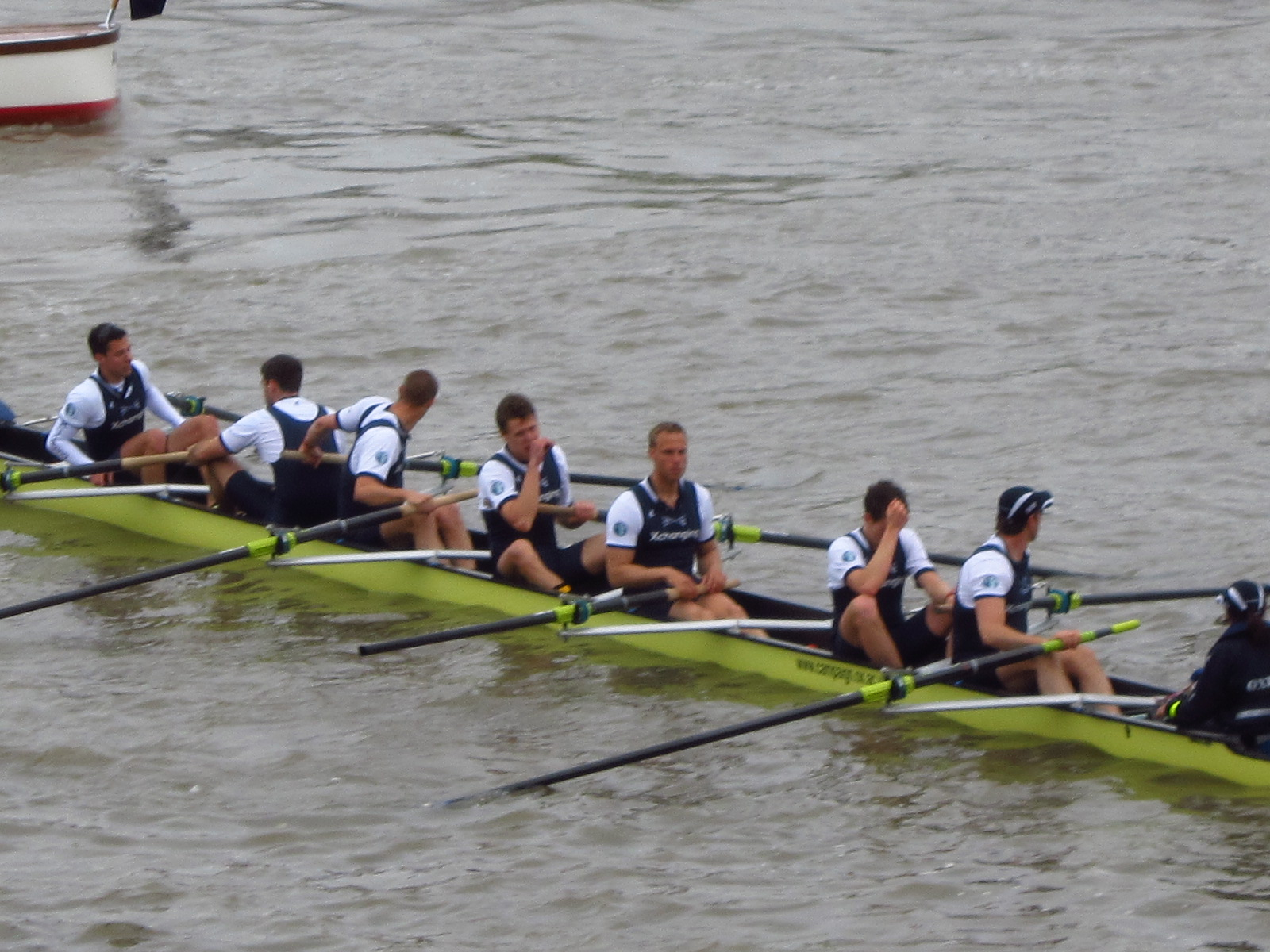 The Boat Race 2012 from near the finish line at Putney Rowing Club - Chiswick